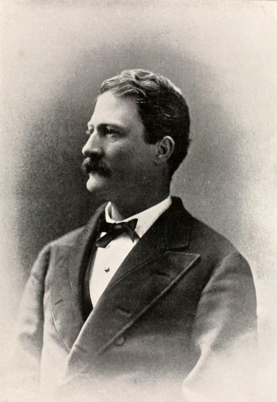 G. W. Custis Lee